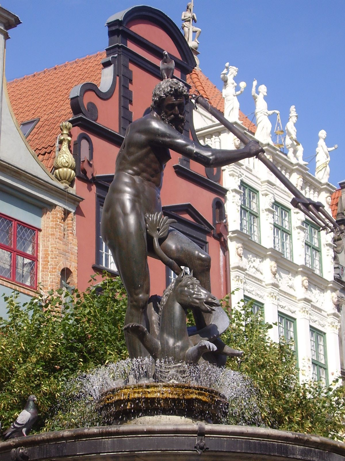 Neptun fountain in Gdańsk, Poland